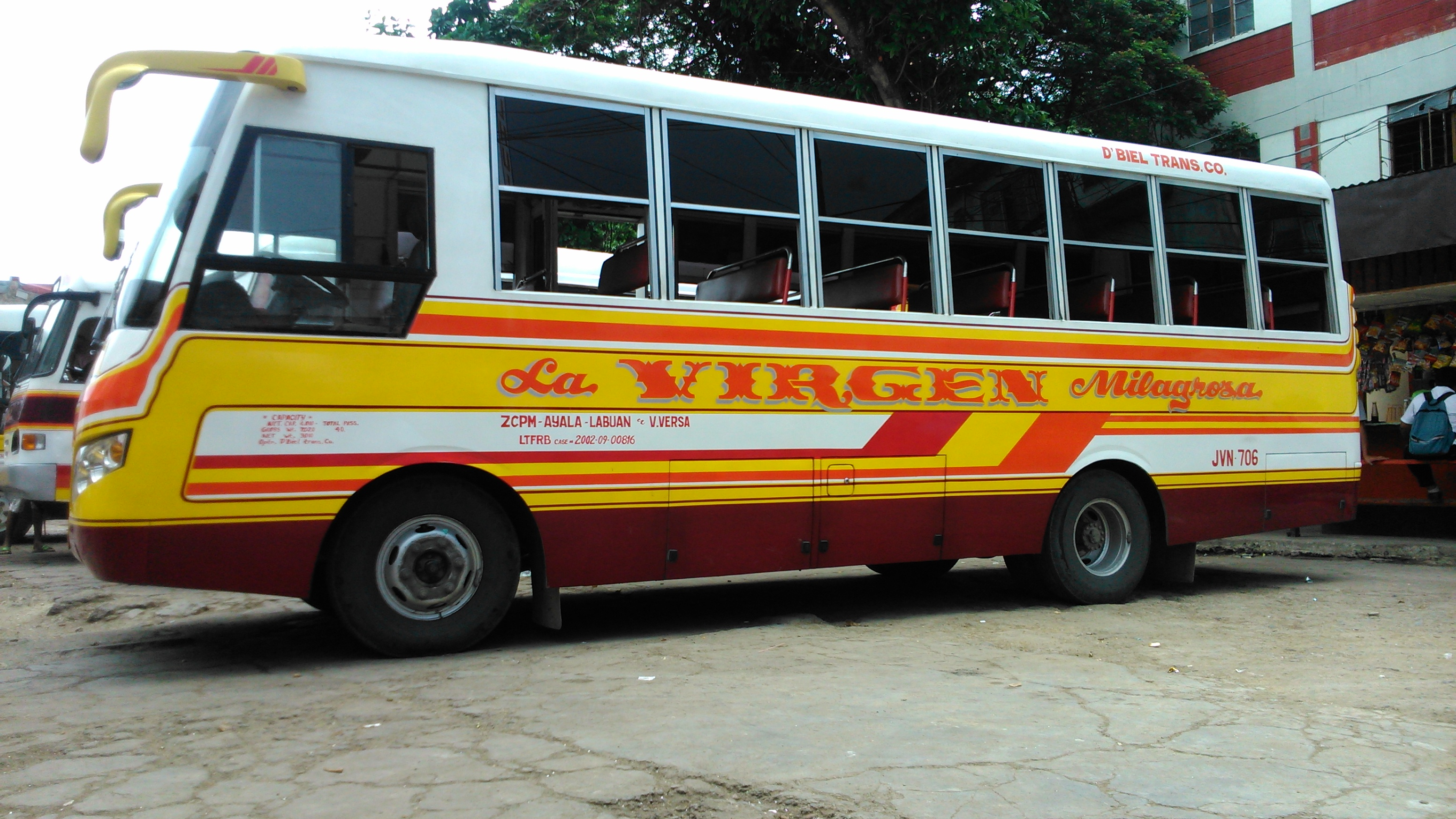 D' Biel 41 at the D' Biel Terminal at Magay St., Zamboanga City. Pinoy Bus Fanatic